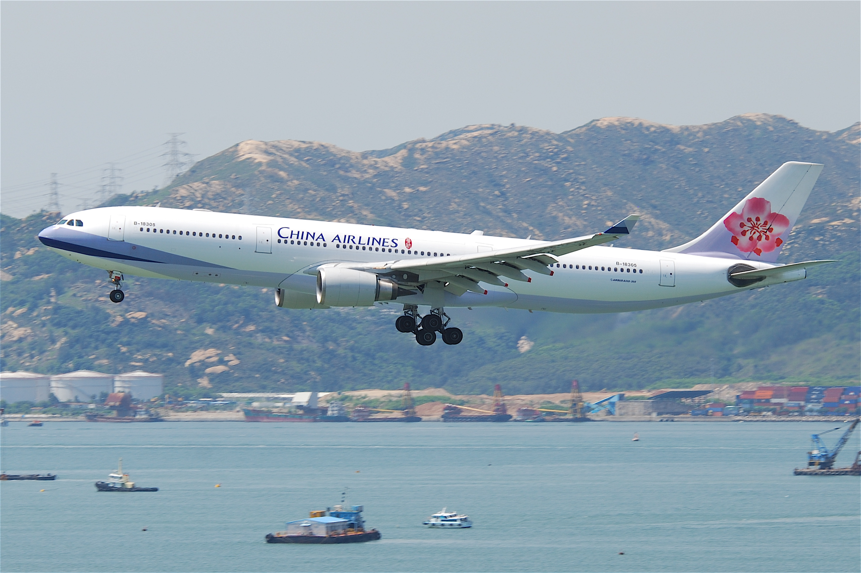 China Airlines Airbus A330-300; B-18305@HKG;04.08.2011/615rh